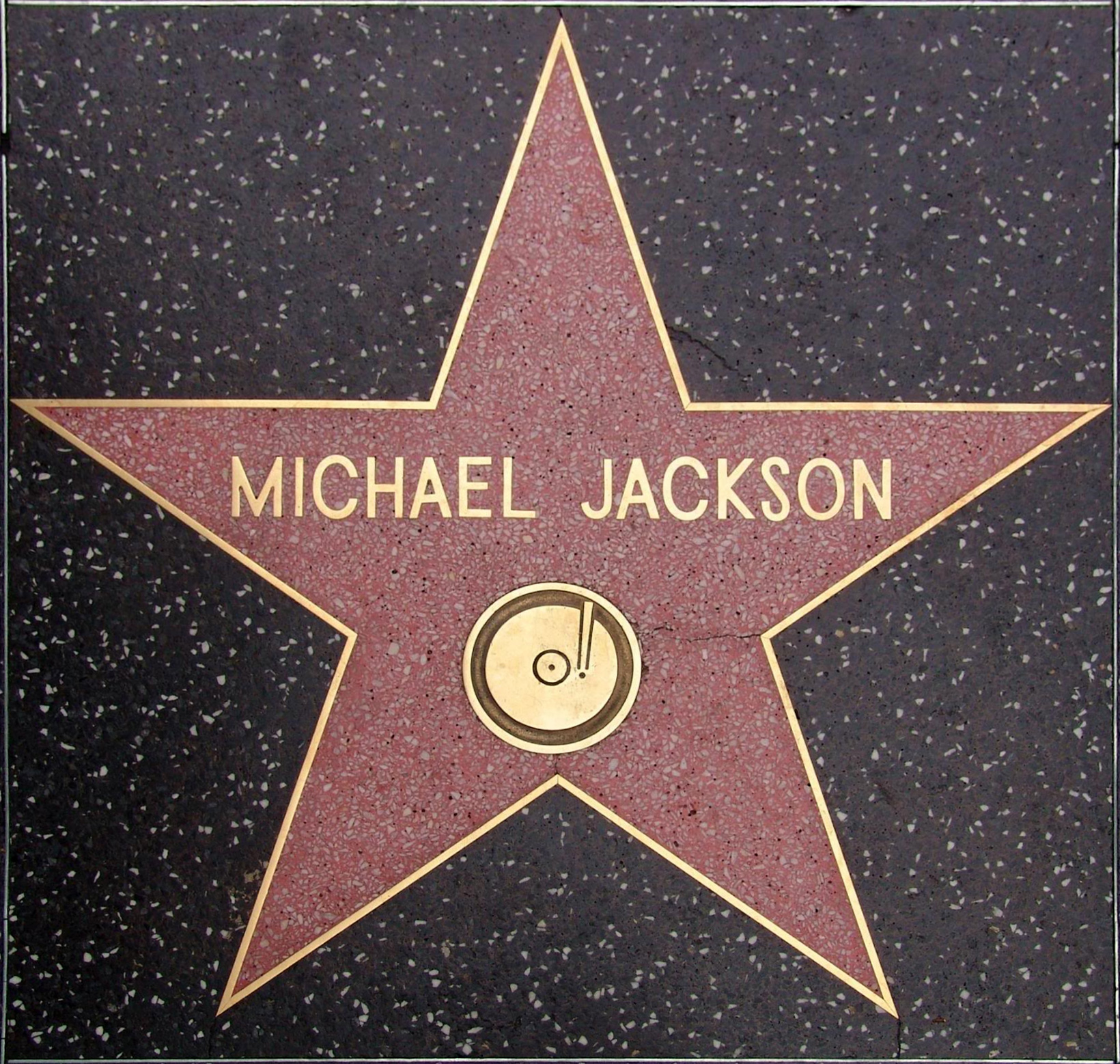 The star of Michael Jackson on the Walk of Fame in Hollywood